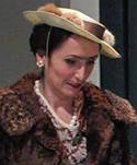 A photo of the Bulgarian actress Stoyanka Mutafova, 2015